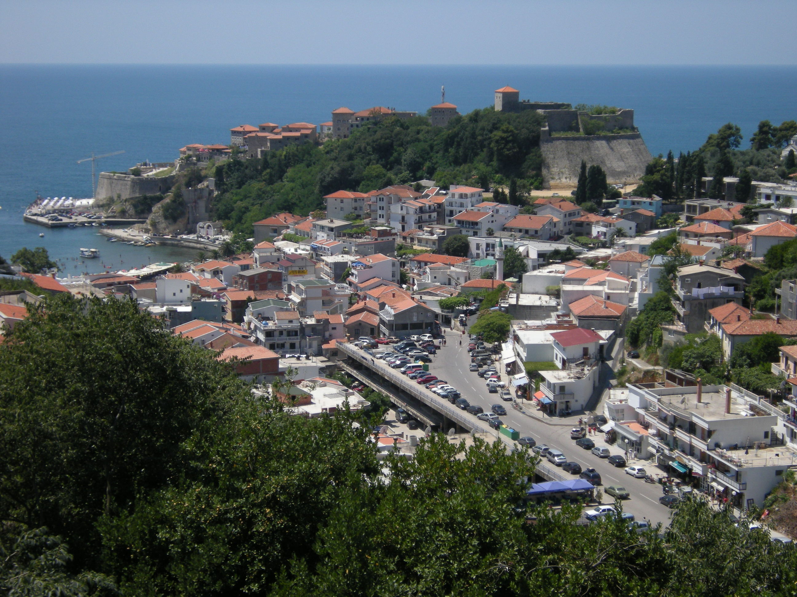 Ulcinj - Montenegro